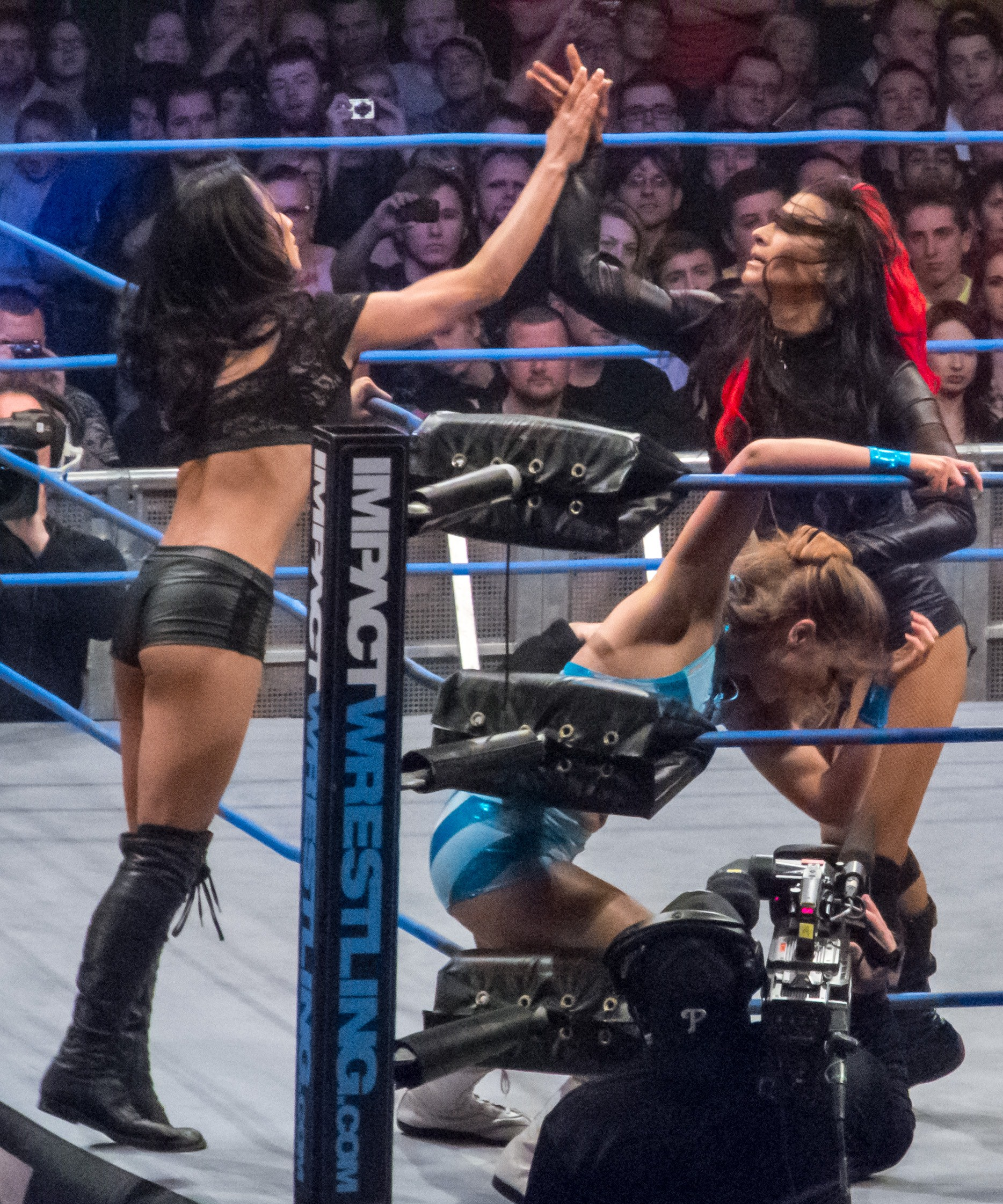 Tara tags in Gail Kim into the match at the Impact! TV Tapings in Wembley, England on January 26, 2013.